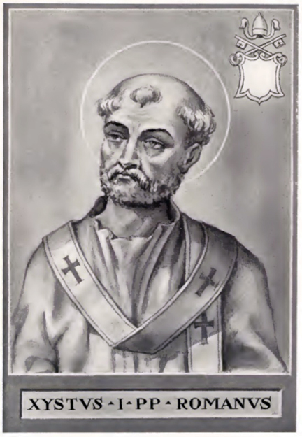 This illustration is from The Lives and Times of the Popes by Chevalier Artaud de Montor, New York: The Catholic Publication Society of America, 1911. It was originally published in 1842.